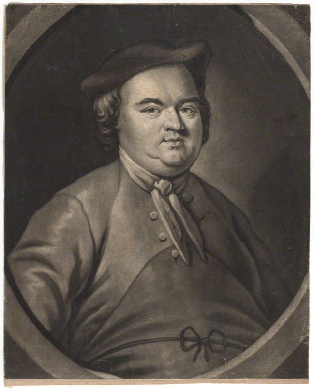 Portrait of John Harper (died 1742), English actor.